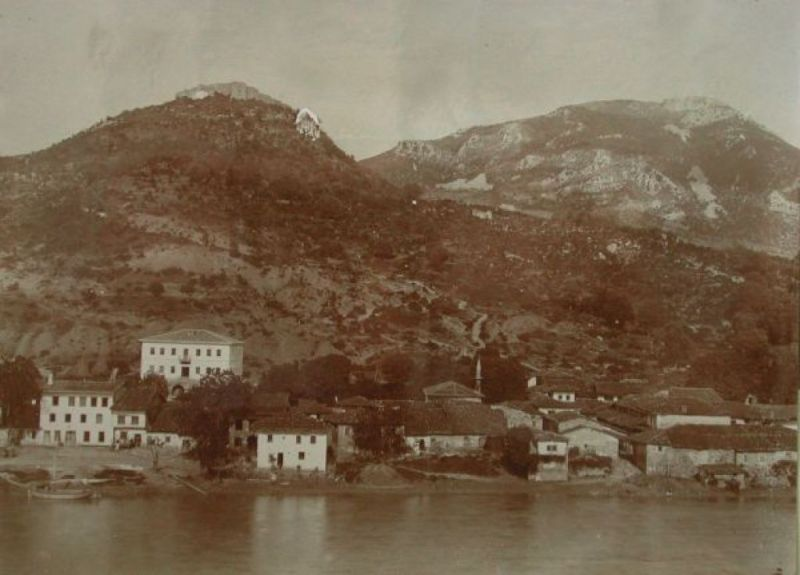 Old view of Lezha, Albania